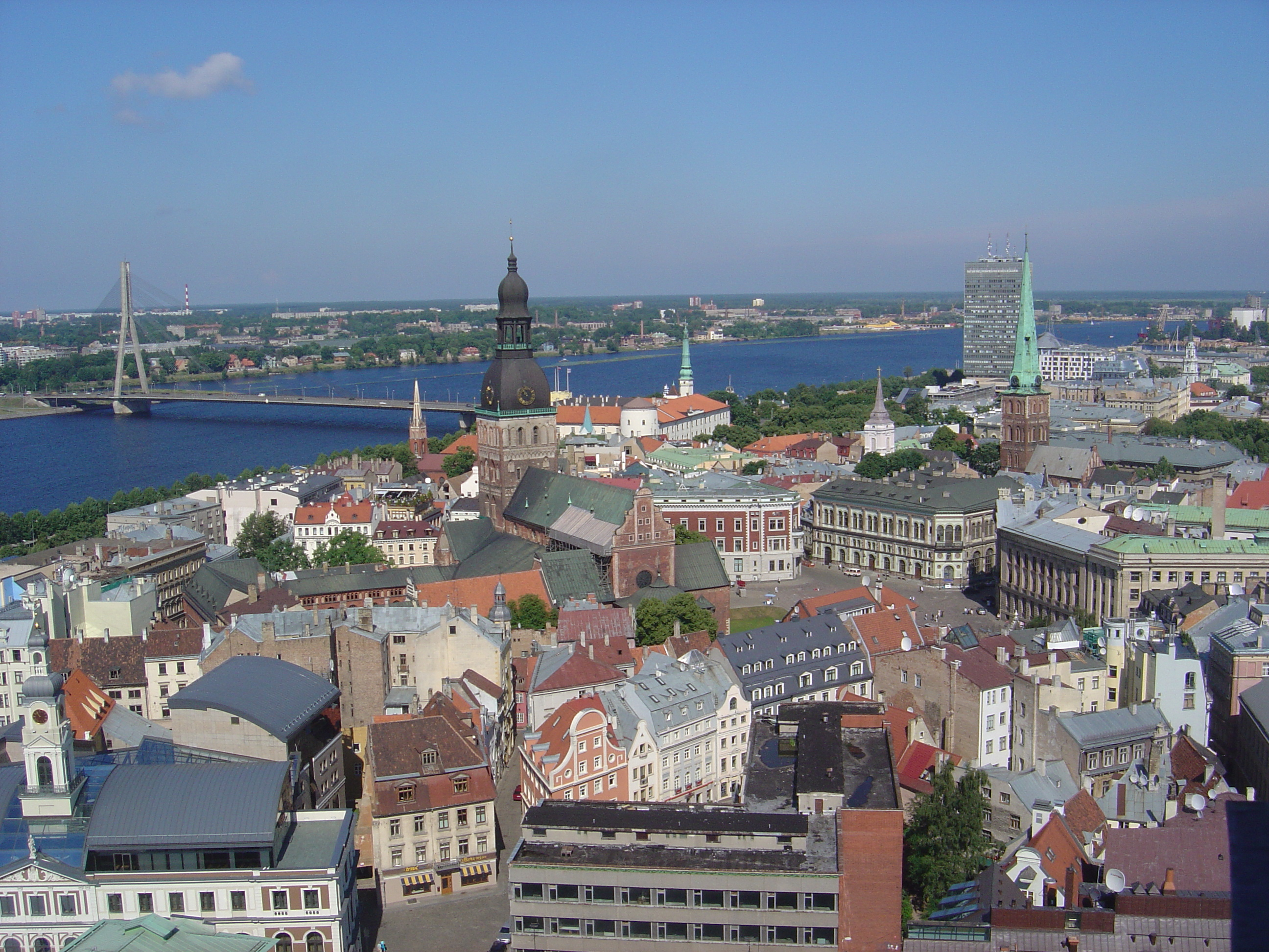 riga skyline